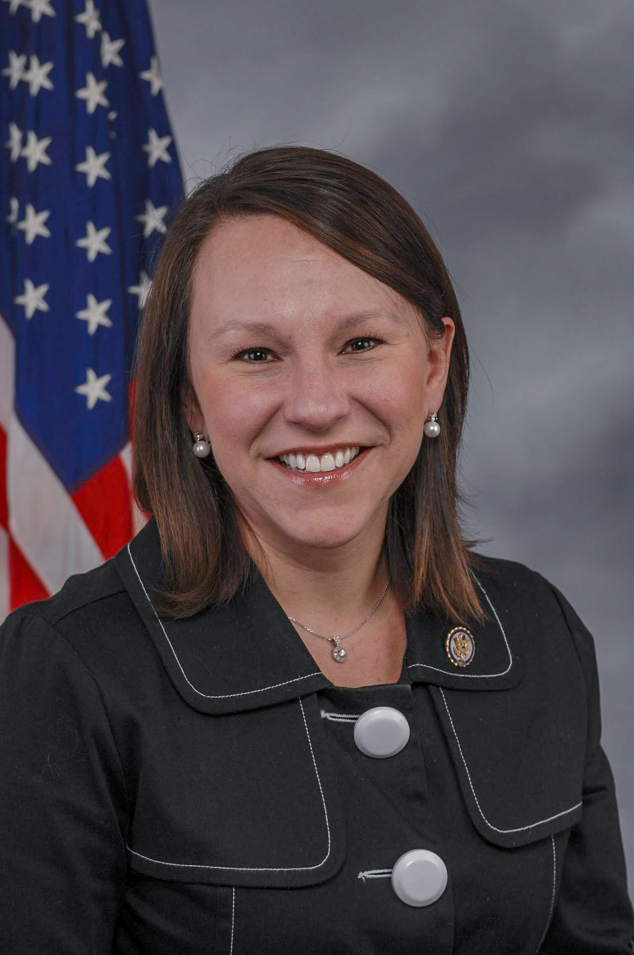 Official portrait of US Rep Martha Roby.